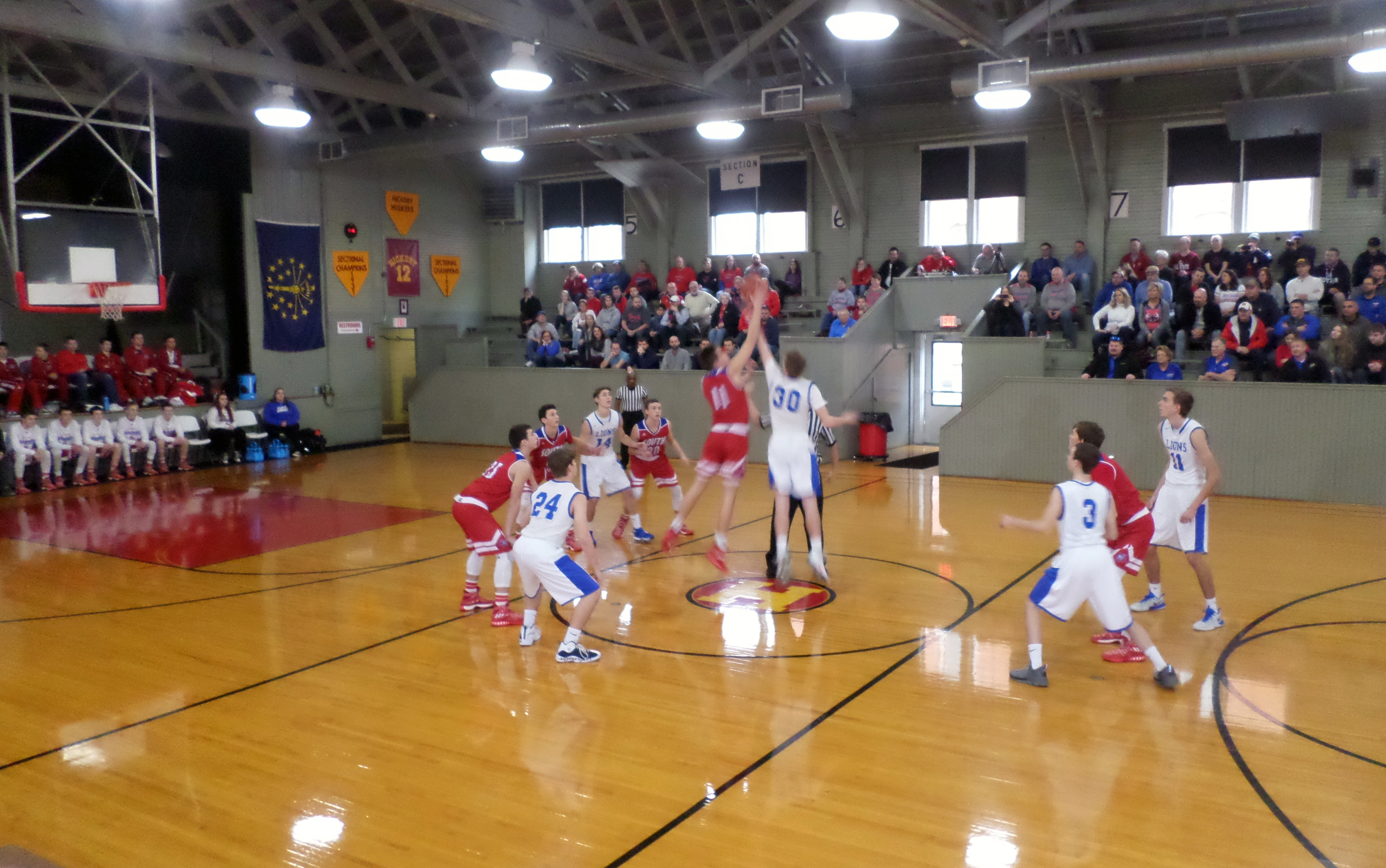 Boy's high school game at Hoosier Gym between Lighthouse Christian Academy and South Putnam in January, 2017. Note there is no center time line. The gym floor is not regulation length. The time lines either side of the center circle are used instead; once the forward one is crossed, you can back up to the rear one.